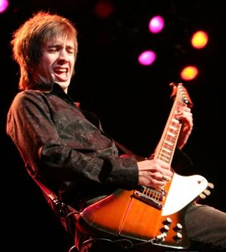 Nick Wheeler in Seattle, Washington, USA on July 1, 2006